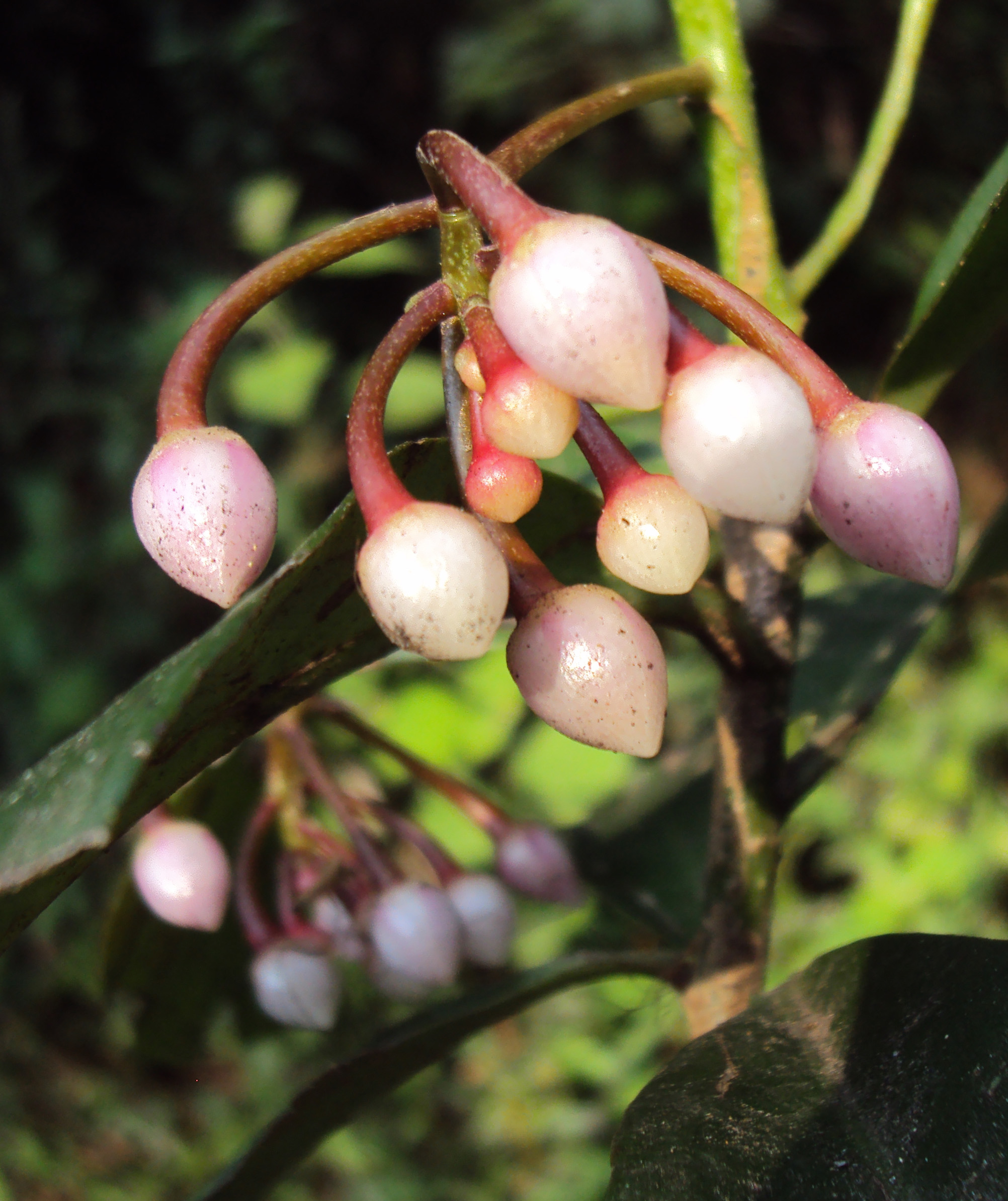 Ardisia solanacea